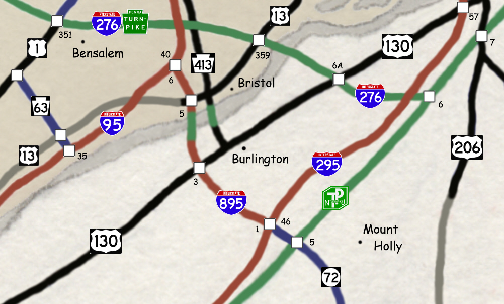 This is my artistic representation of I-895 on a map.